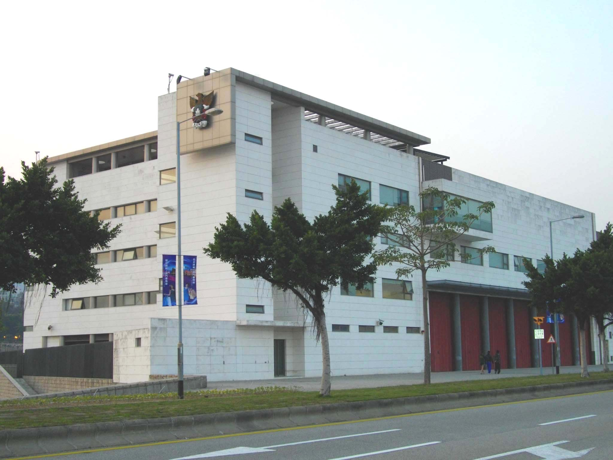 Macau Corps of Firefighters